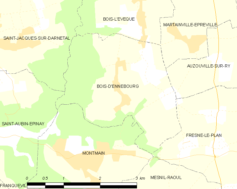 Map of French municipality Bois-d'Ennebourg